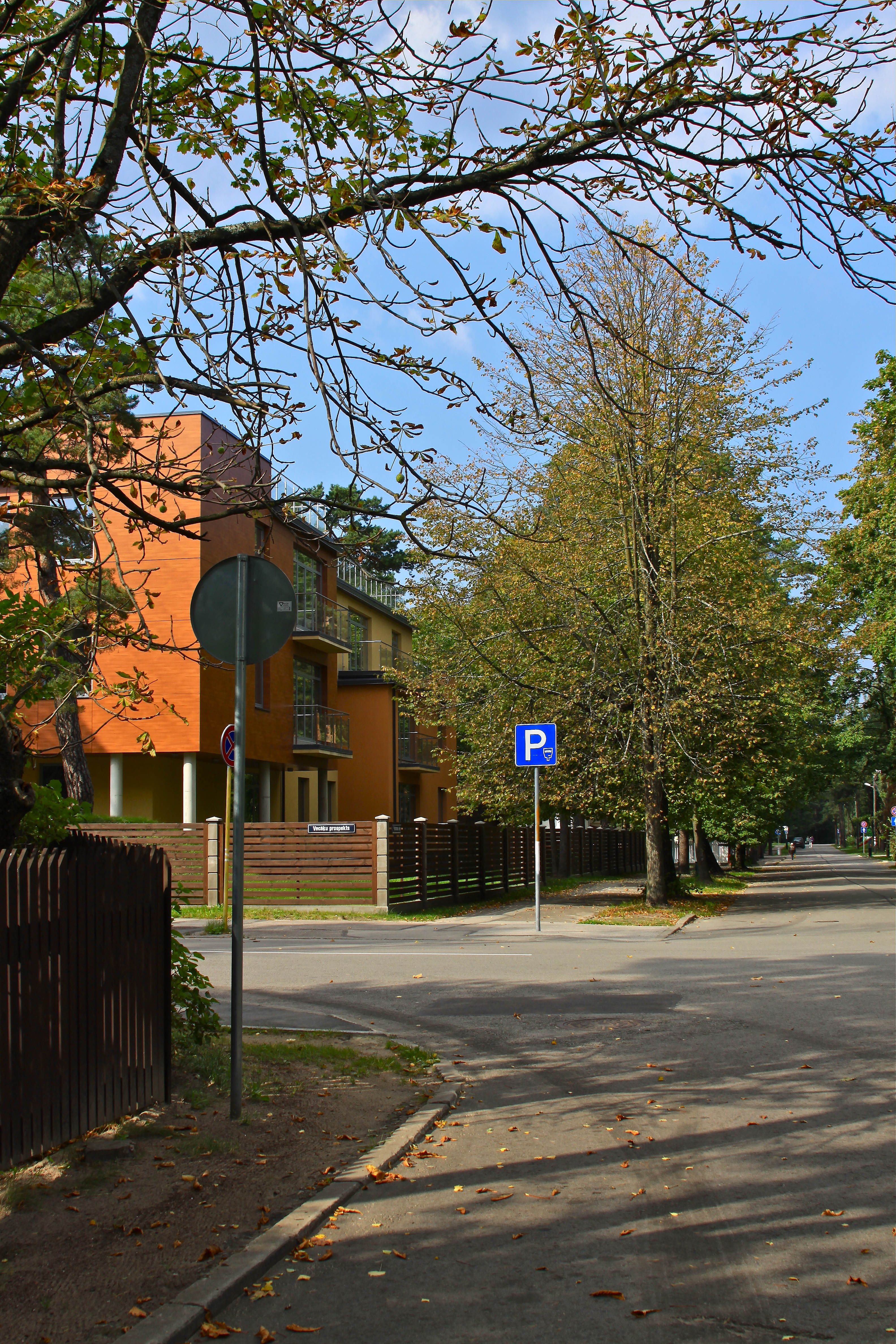 Street in Vecāķi, Rīga, LatviaLatviešu: Vecāķu prospekta un Pludmales ielas krustojums, Vecāķi, Rīga